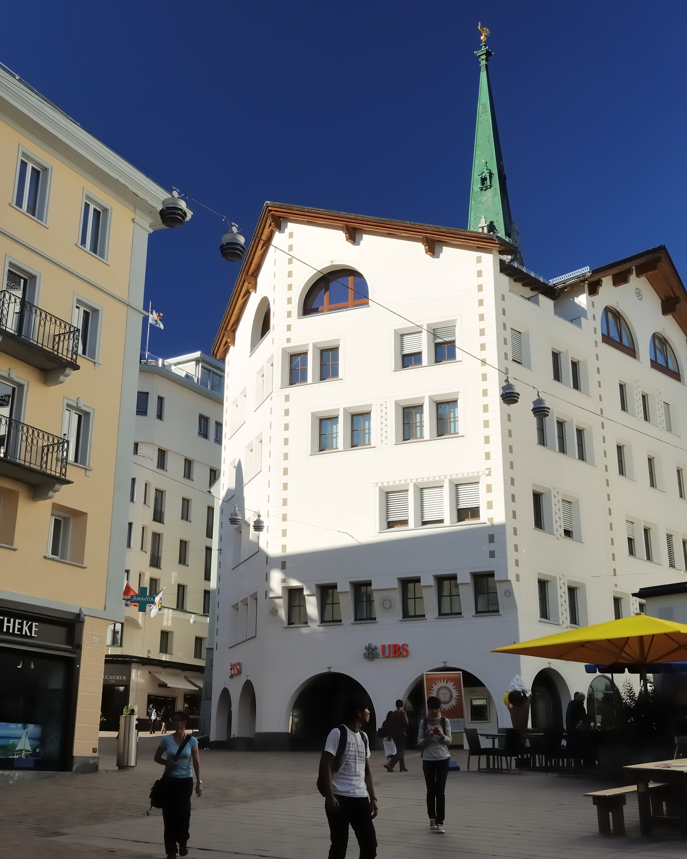 Rathausplatz, St. Moritz